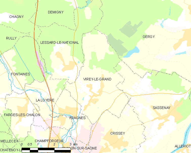 Map of French municipality